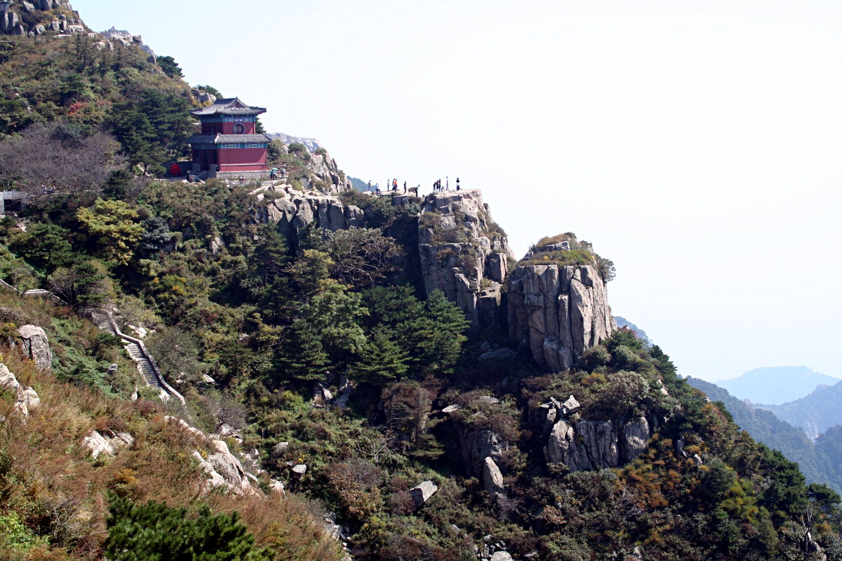 The "Azure Clouds Temple" on the slope of Mount Tai, Shandong Province, China. 中文（中国大陆）: 中国山东泰山碧霞祠。